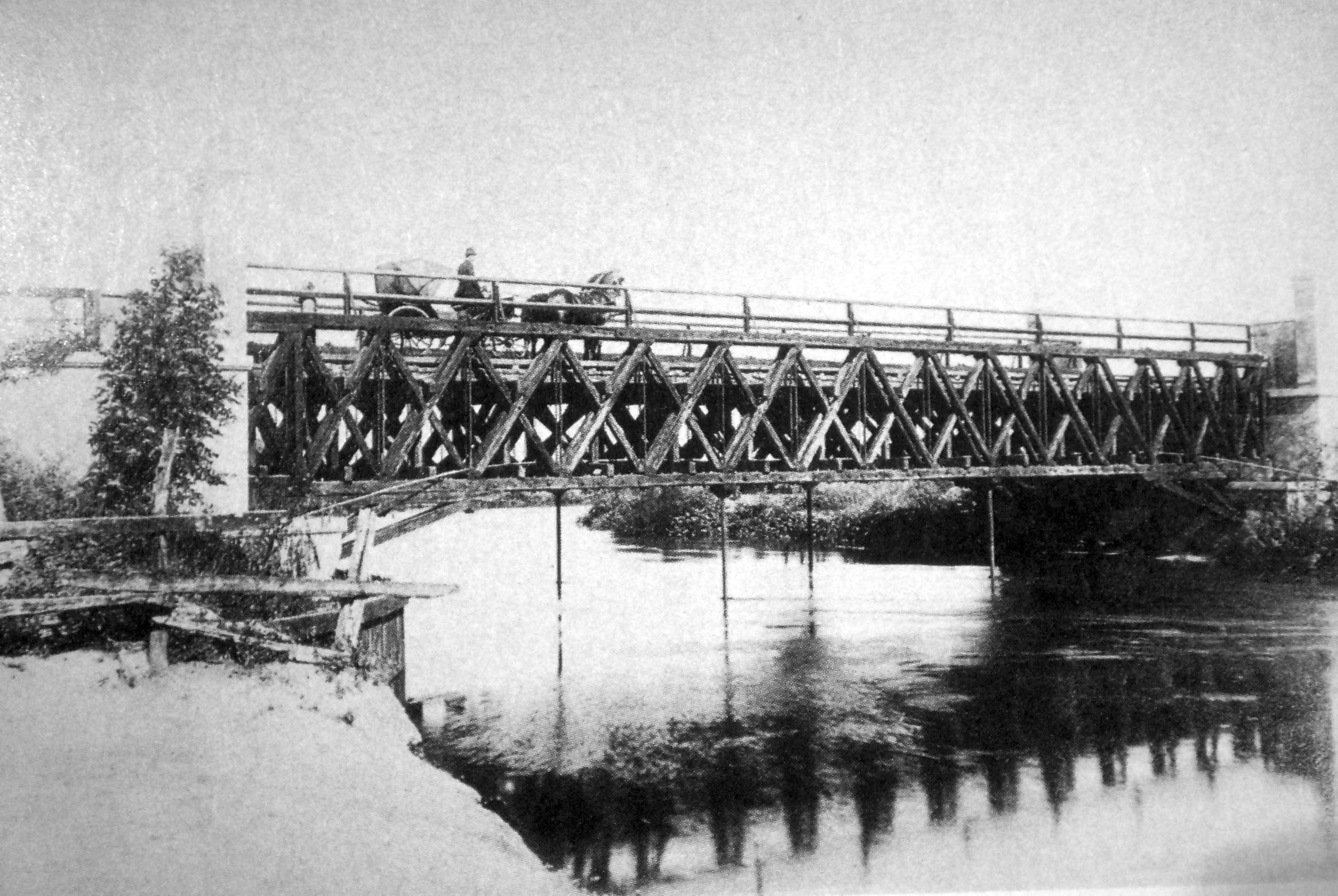 The old Puente Valentín Alsina. The bridge connected Sáenz Ave. of Nueva Pompeya with Valentín Alsina district in Greater Buenos Aires, crossing the Riachuelo. This bridge lasted until 1910 when it was replaced by another one, made of iron.